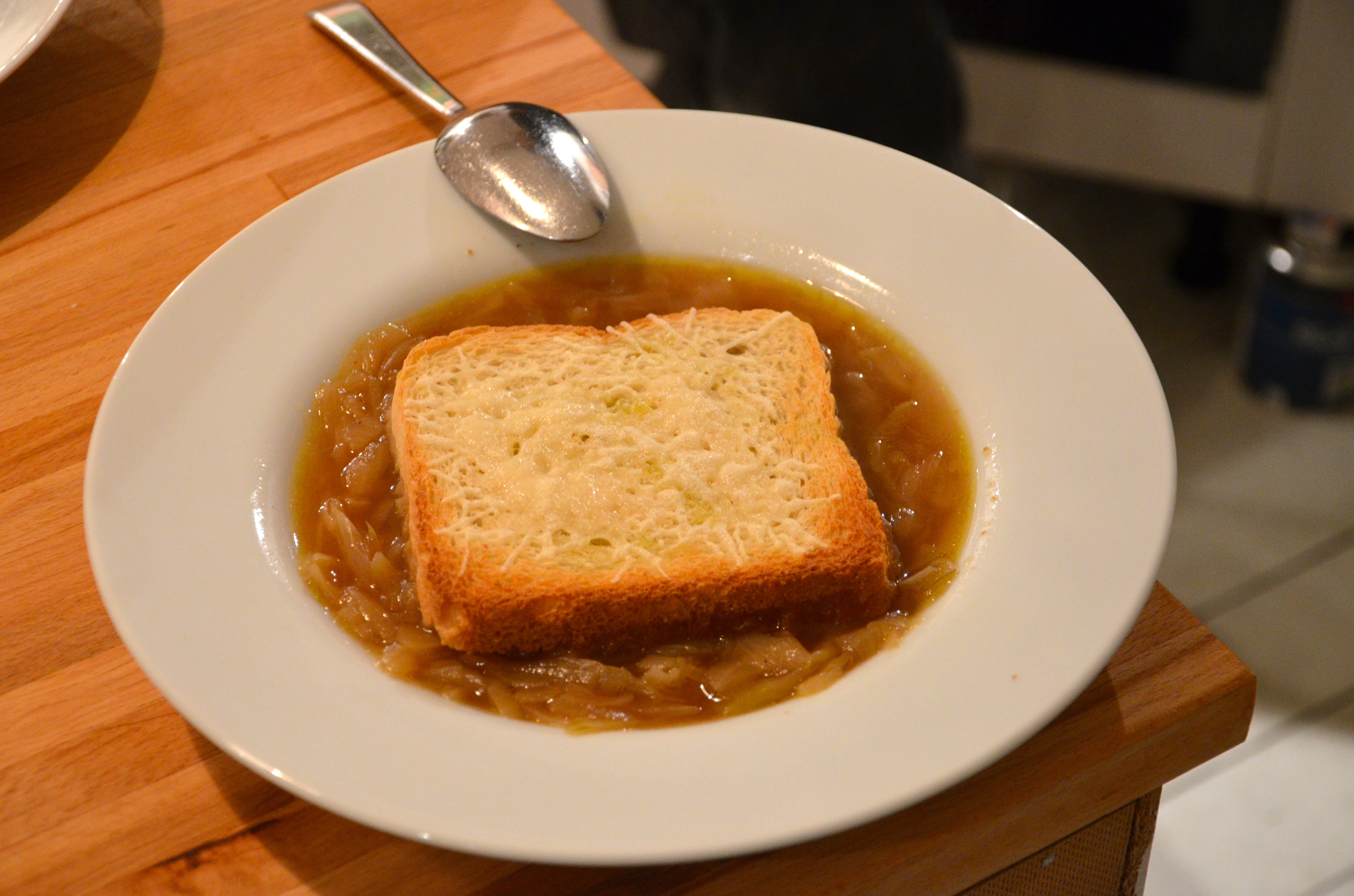 French onion soup.